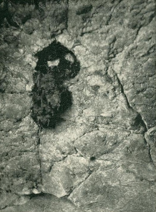 The Solymár Cave.